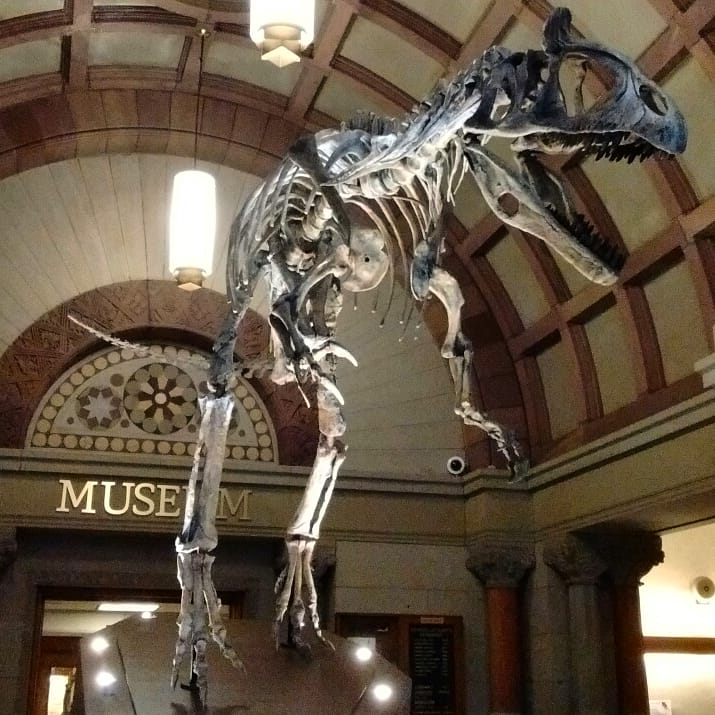 Replica of Cryolophosaurus ellioti at the Orton Geological Museum, Orton Hall, Ohio State University